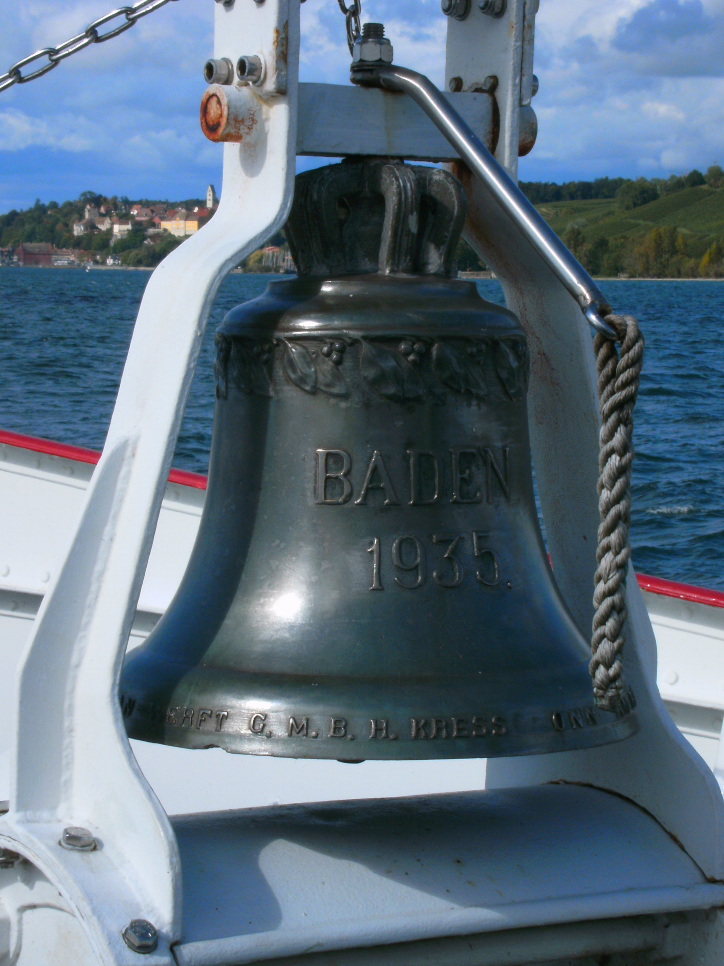 Bodensee (Lake Constance): Baden (Schiff, 1935) ship bell.